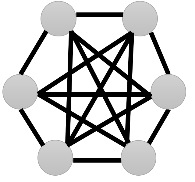 Leader election full graph